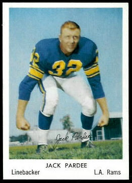 A 1959 promotional image of Los Angeles Rams player Jack Pardee.